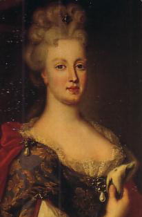 Maria Anna of Austria (1683-1754), queen consort of John V of Portugal.